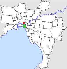 Location of the City of South Melbourne within Melbourne.